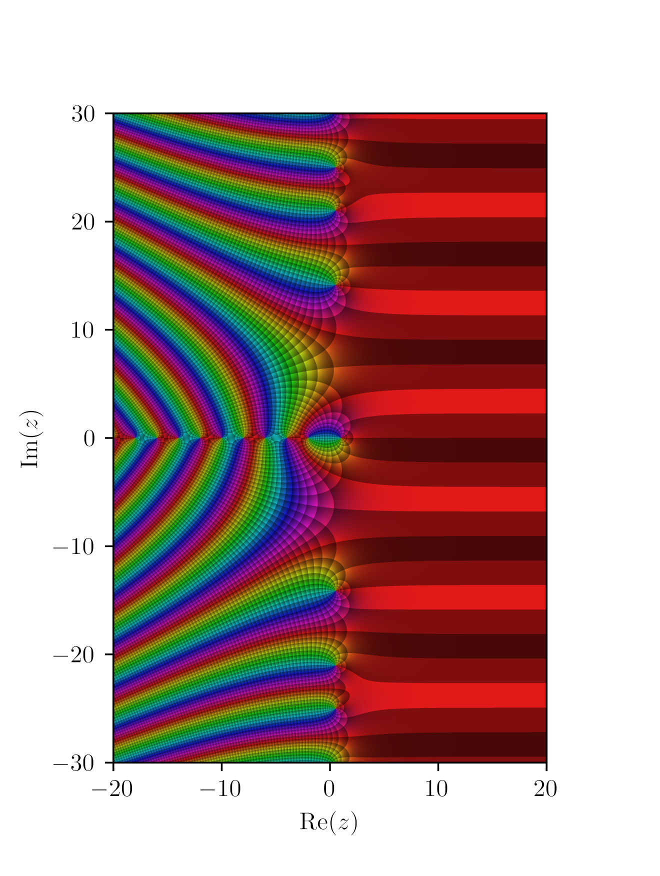 The Rieman Zeta Function ζ(s) represented in a rectangular region of the complex plane. It is generated as a matplotlib plot using a version of the Domain coloring method [1]